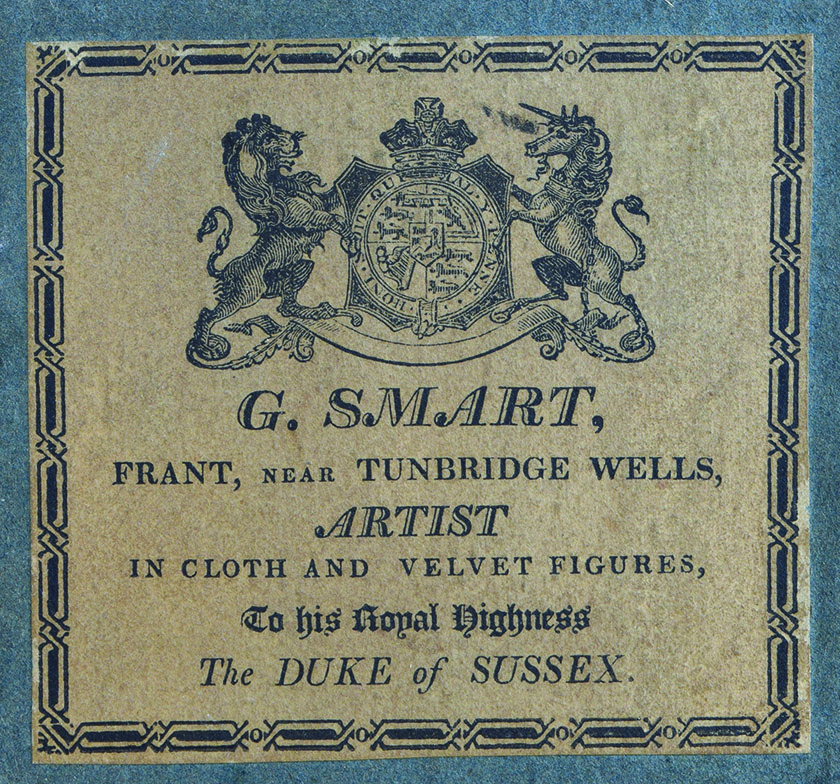 Label on the reverse of the Goosewoman picture by George Smart, c.1830s. ©Tunbridge Wells Museum/Jonathan Christie 2015